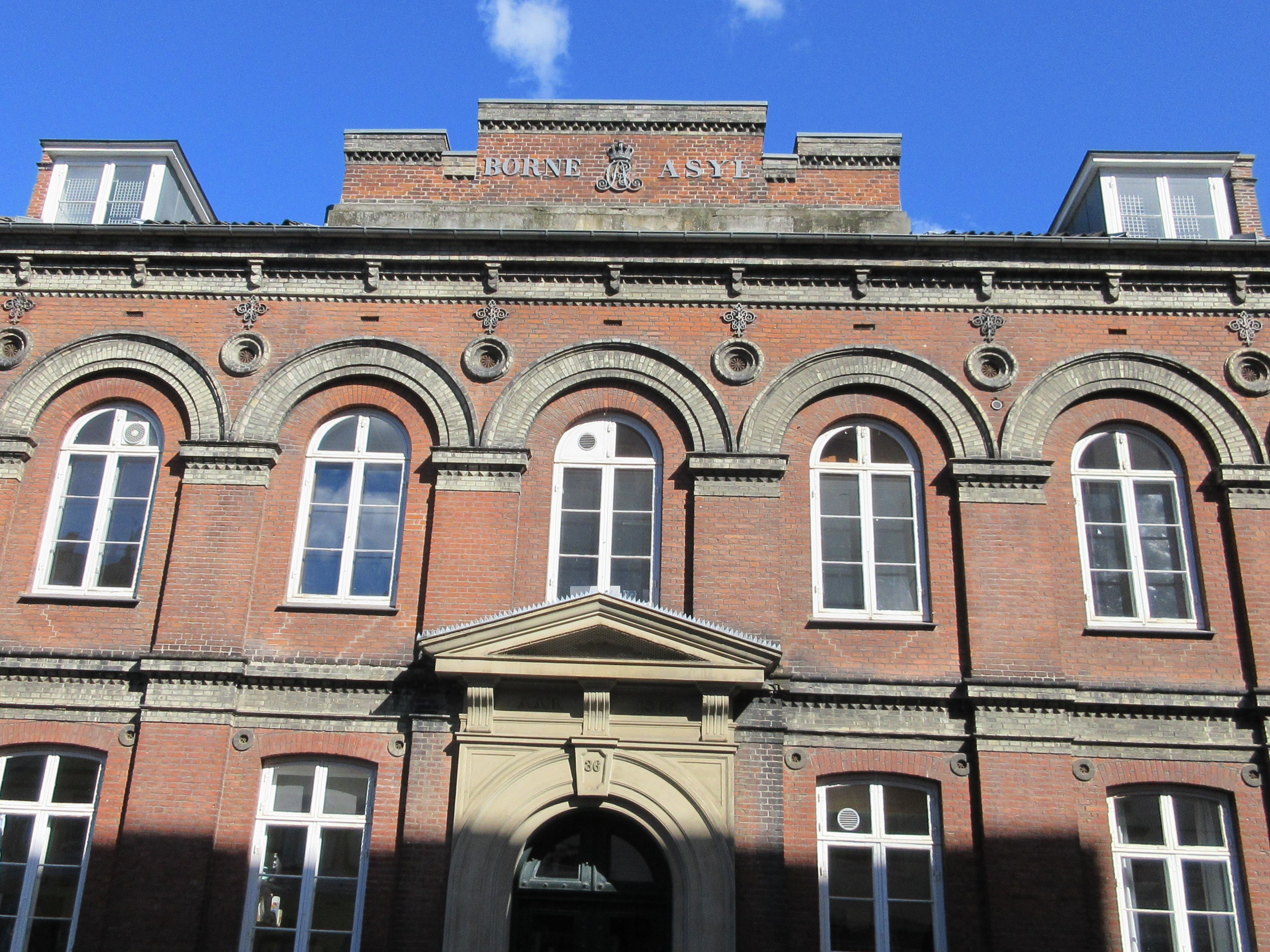 Caroline Amalies Asyl in Rigensgade in Copenhagen, Denmark